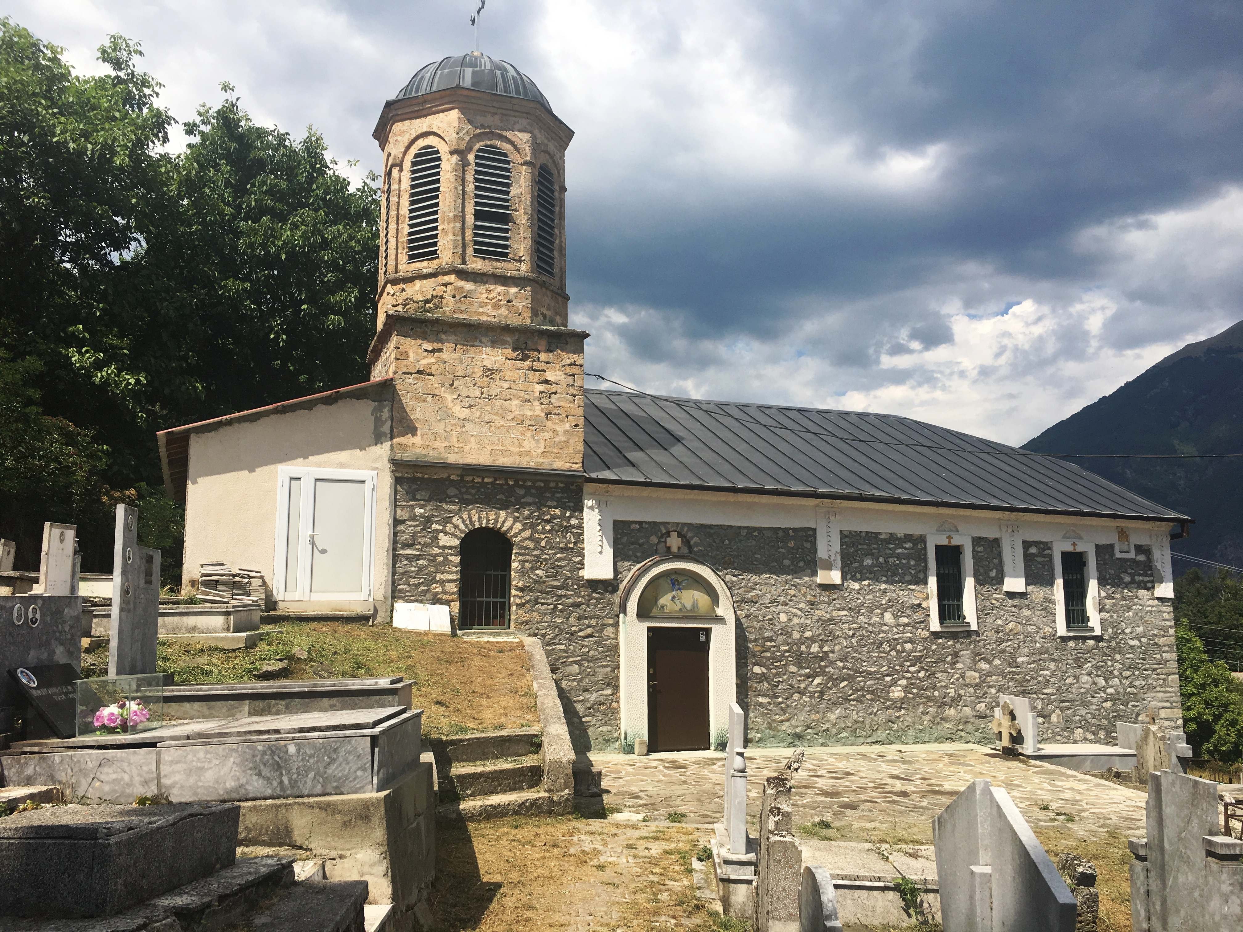 St. Michael the Archangel Church in the village of Bituše